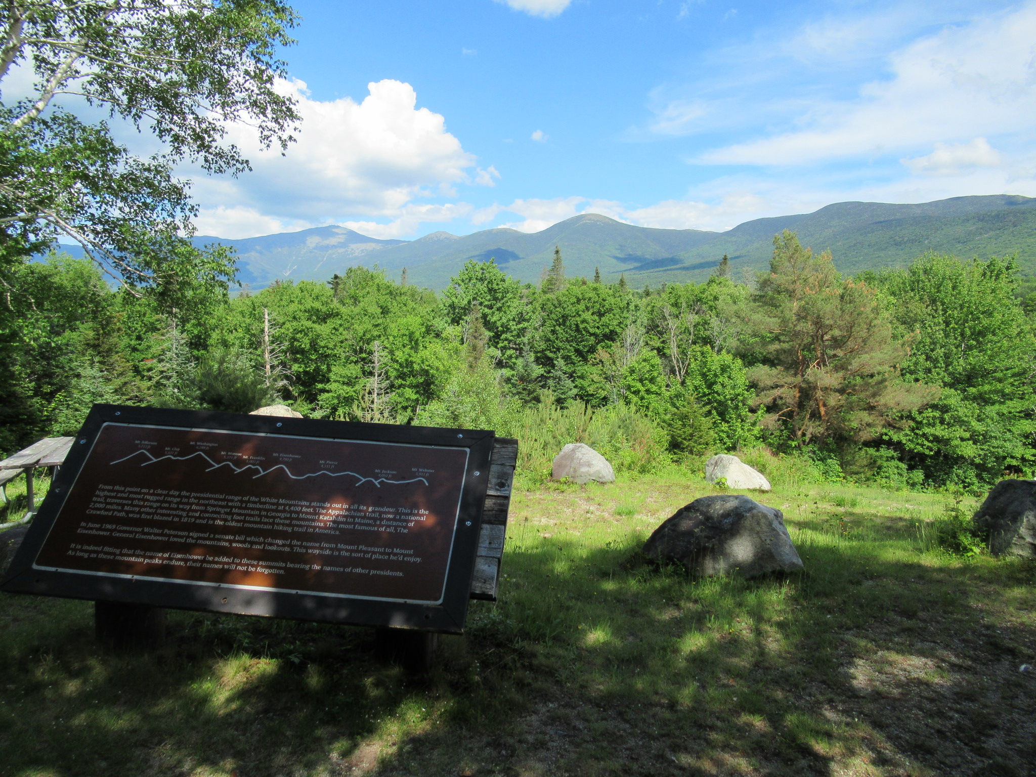 View of the southern Presidential Range in the White Mountains (New Hampshire) from the Eisenhower Memorial Wayside Park along U.S. Route 302